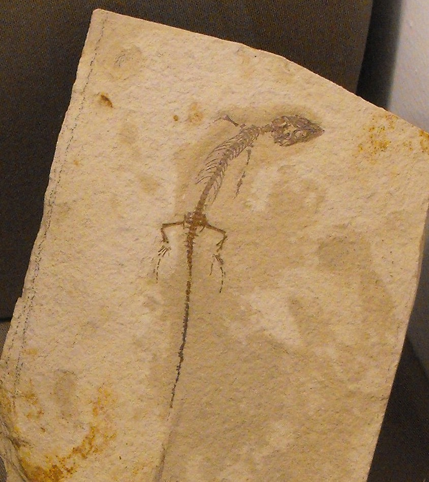 Fossil of Monjurosuchus splendens from Liaoning Province, China, on display at the San Diego County Fair, California, USA.